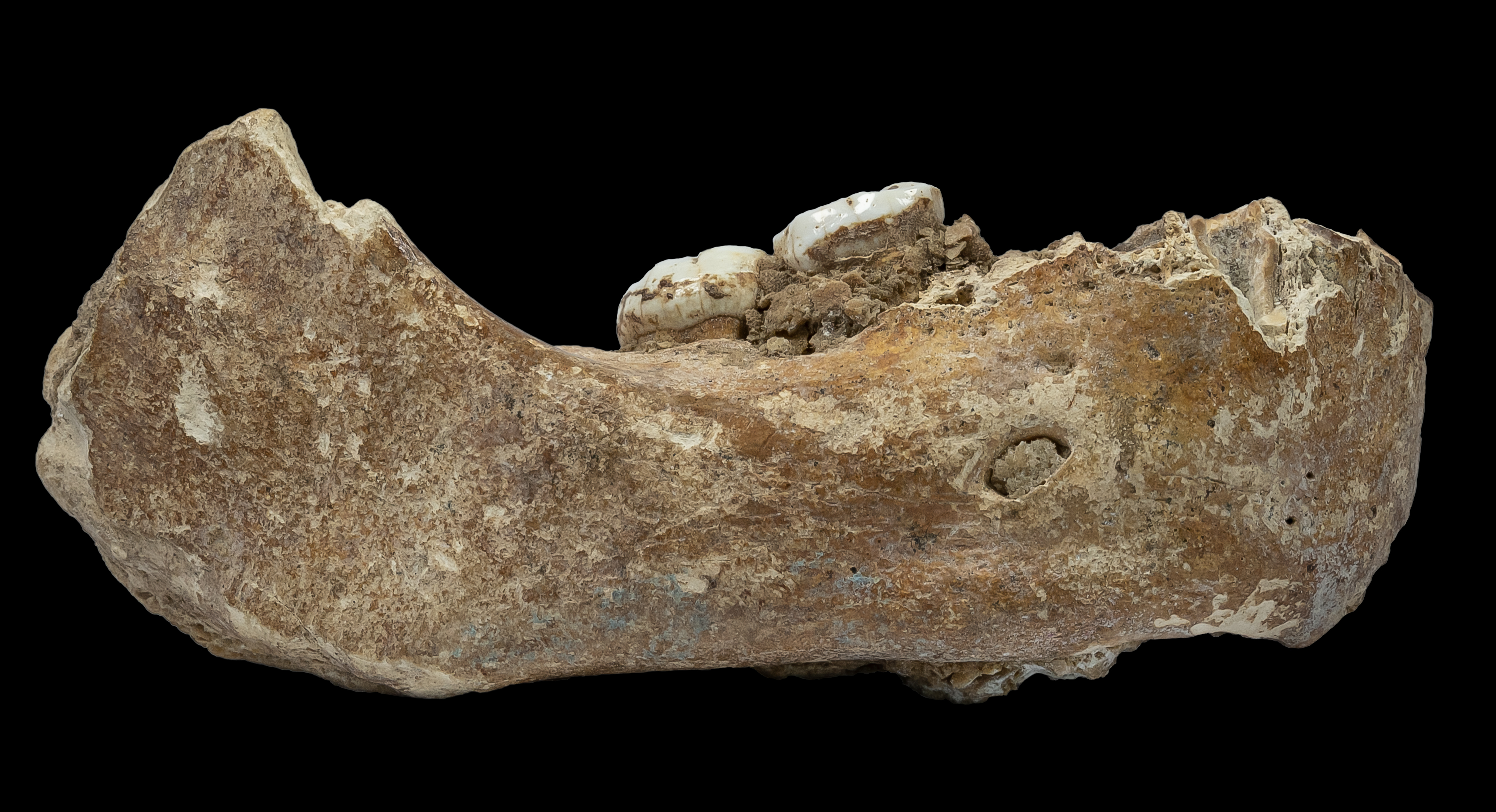 The lateral photograph of Xiahe mandible showing two attached molars. The mandible is the first confirmed discovery of a Denisovan fossil outside of Denisova Cave.